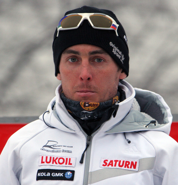 Vasilij Rotchev